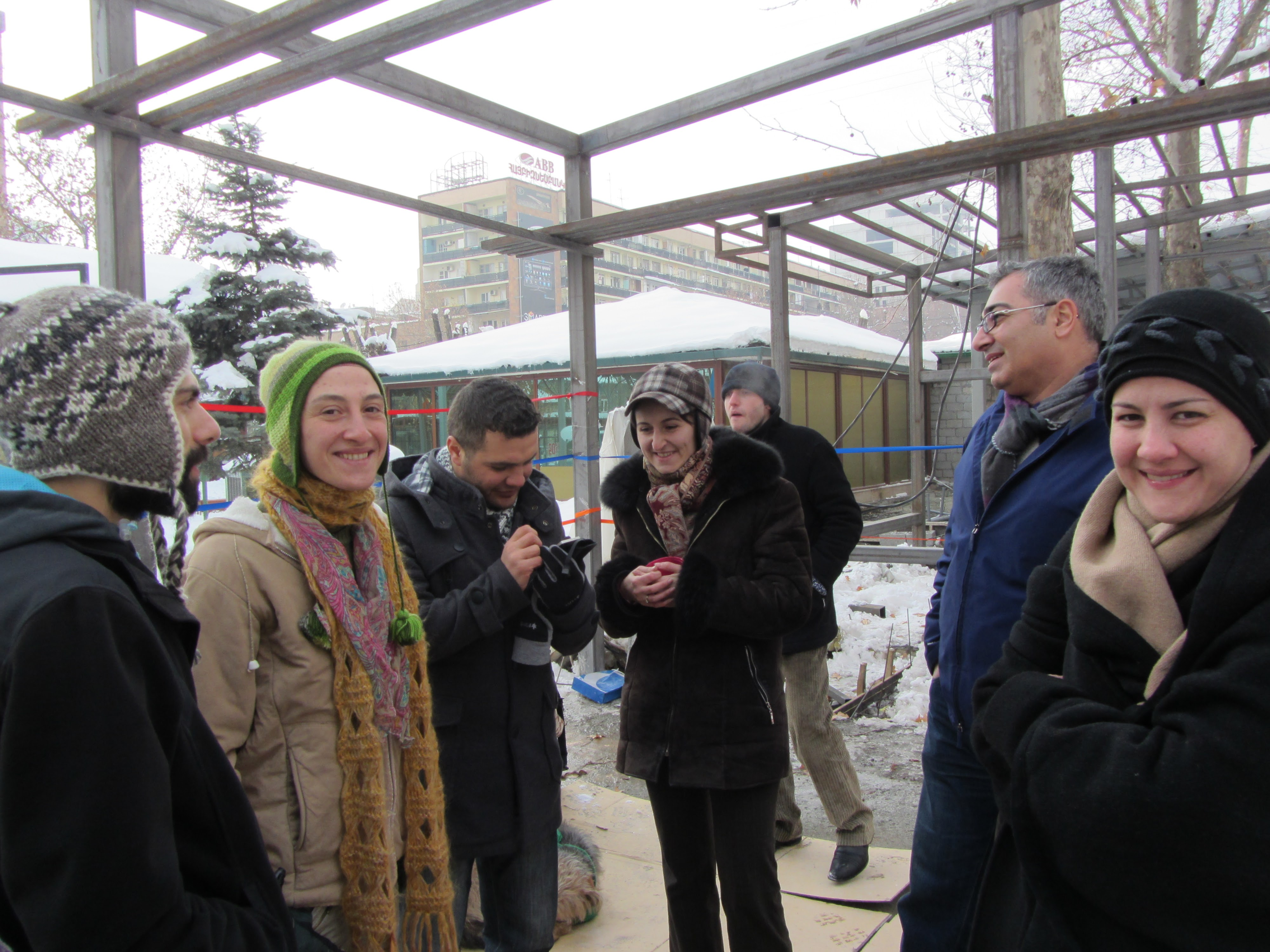 Mashtots Park Protests